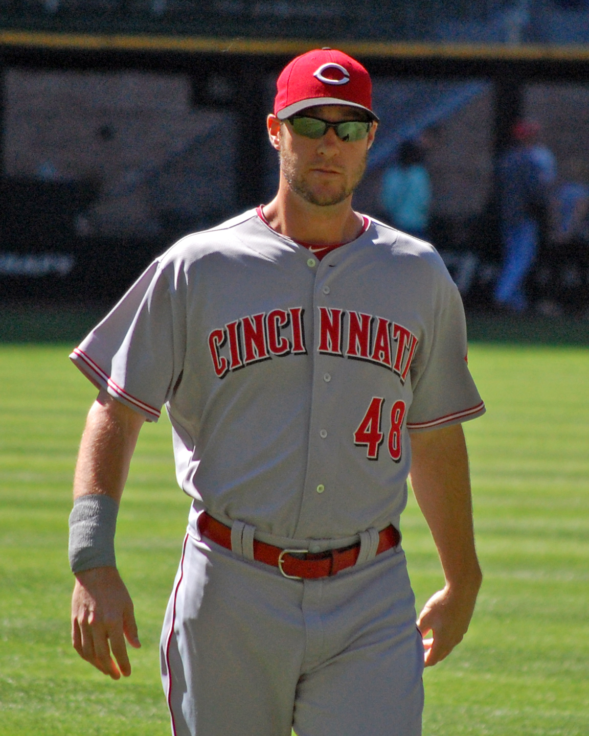 Ryan Ludwick playing for the Cincinnati Reds in 2013 against the Milwaukee Brewers at Miller Park in Milwaukee, Wisconsin.